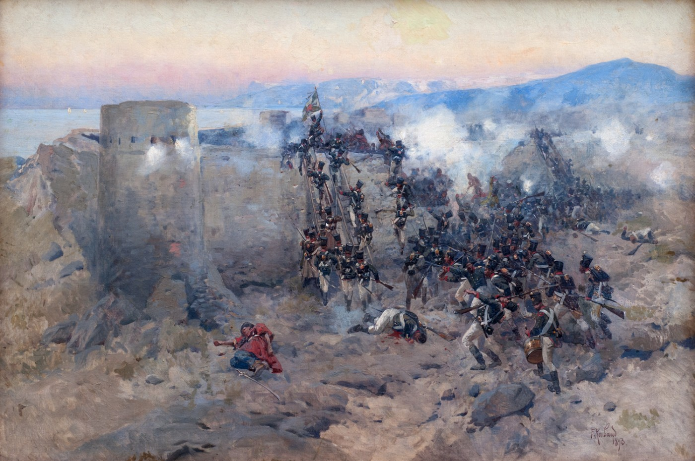 Russian troops storming Lankaran fortress, January 13th, 1813